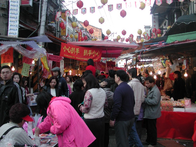 Dihua Street market in 2007 Chinese New Year.